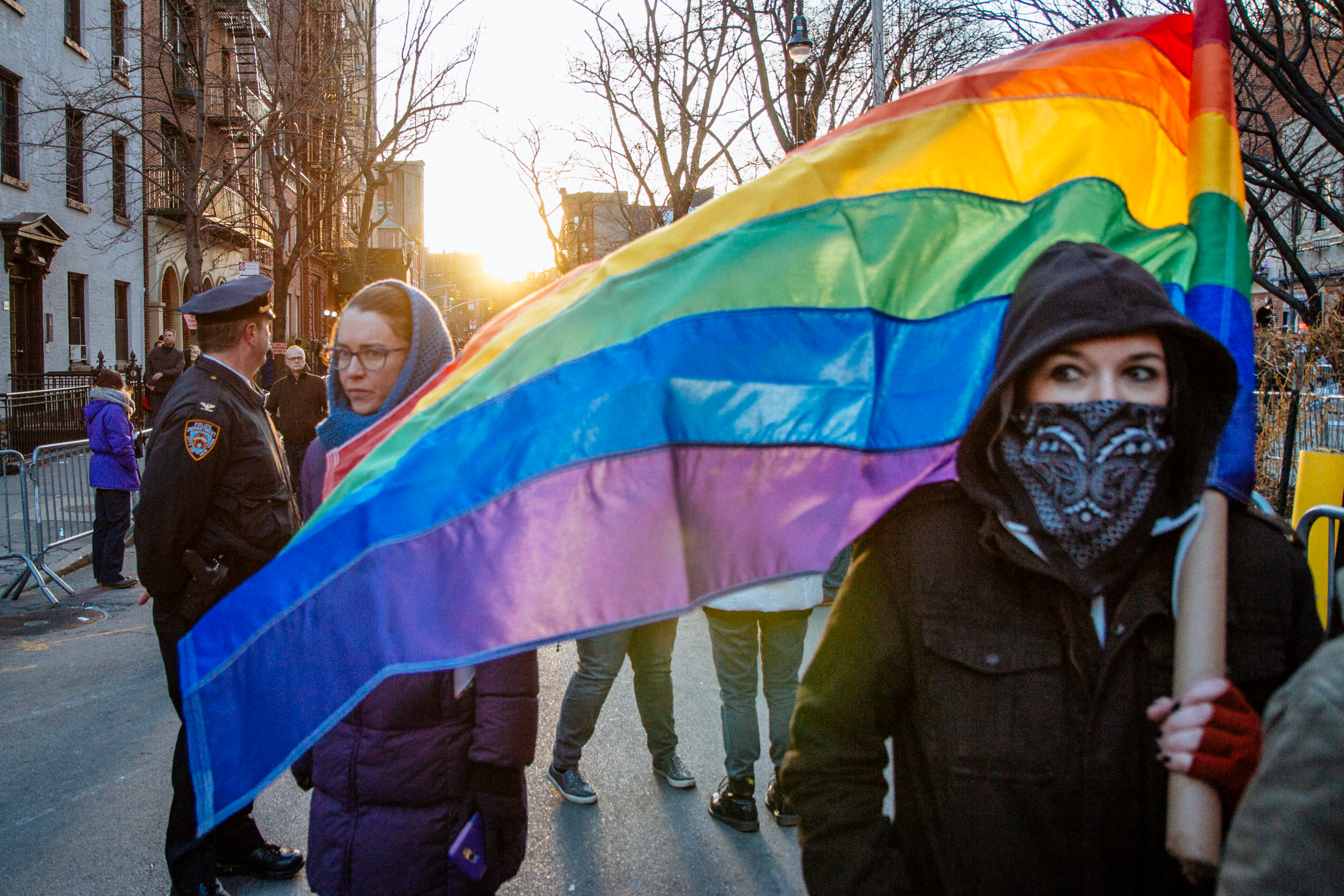 LGBT Solidarity Rally in front of the Stonewall Inn in solidarity with every immigrant, asylum seeker, refugee and every person impacted by Donald Trump's policies.